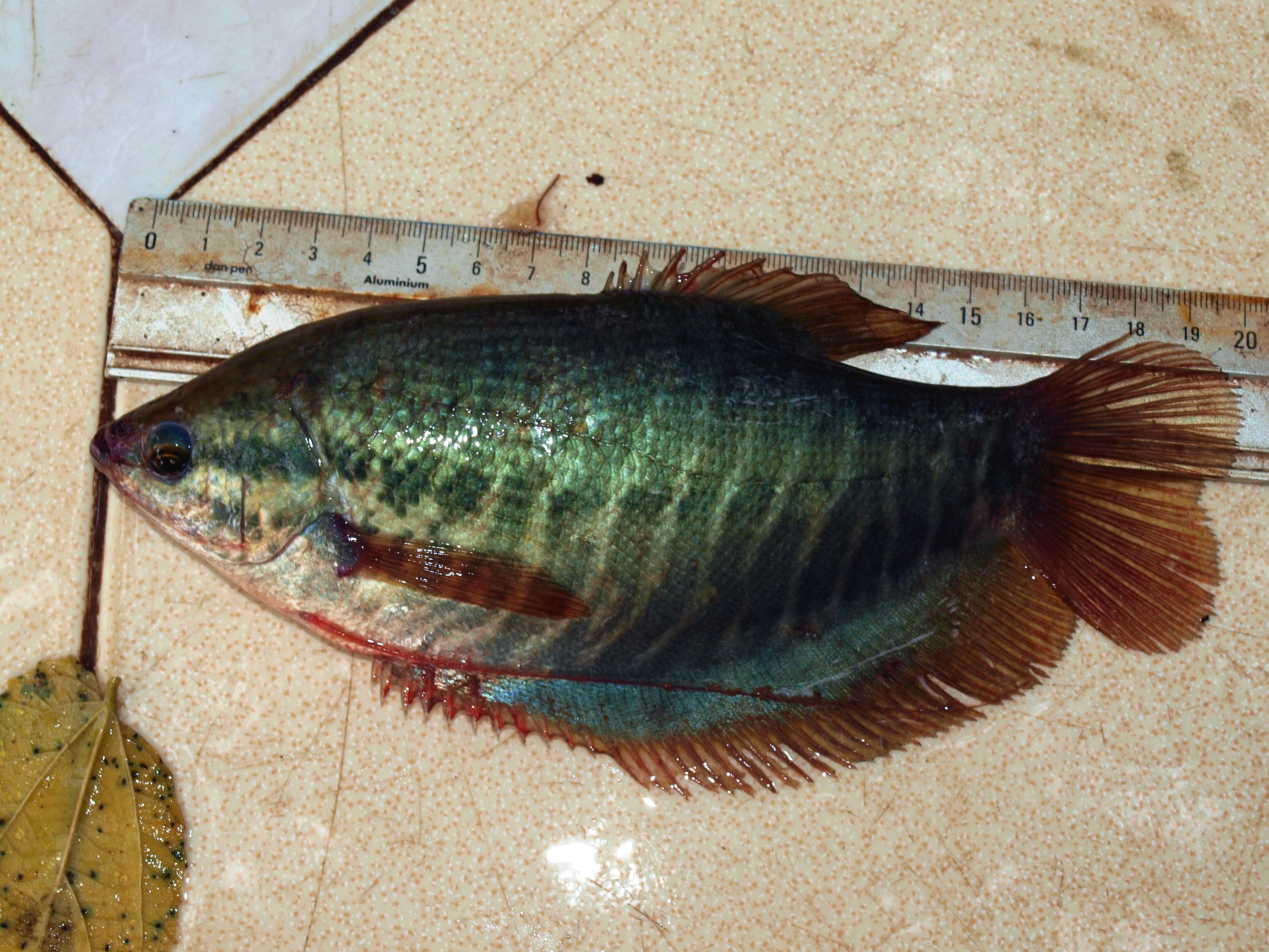 Trichogaster pectoralis male caught in a flooded ricefield in Phrom Phiram, Thailand.